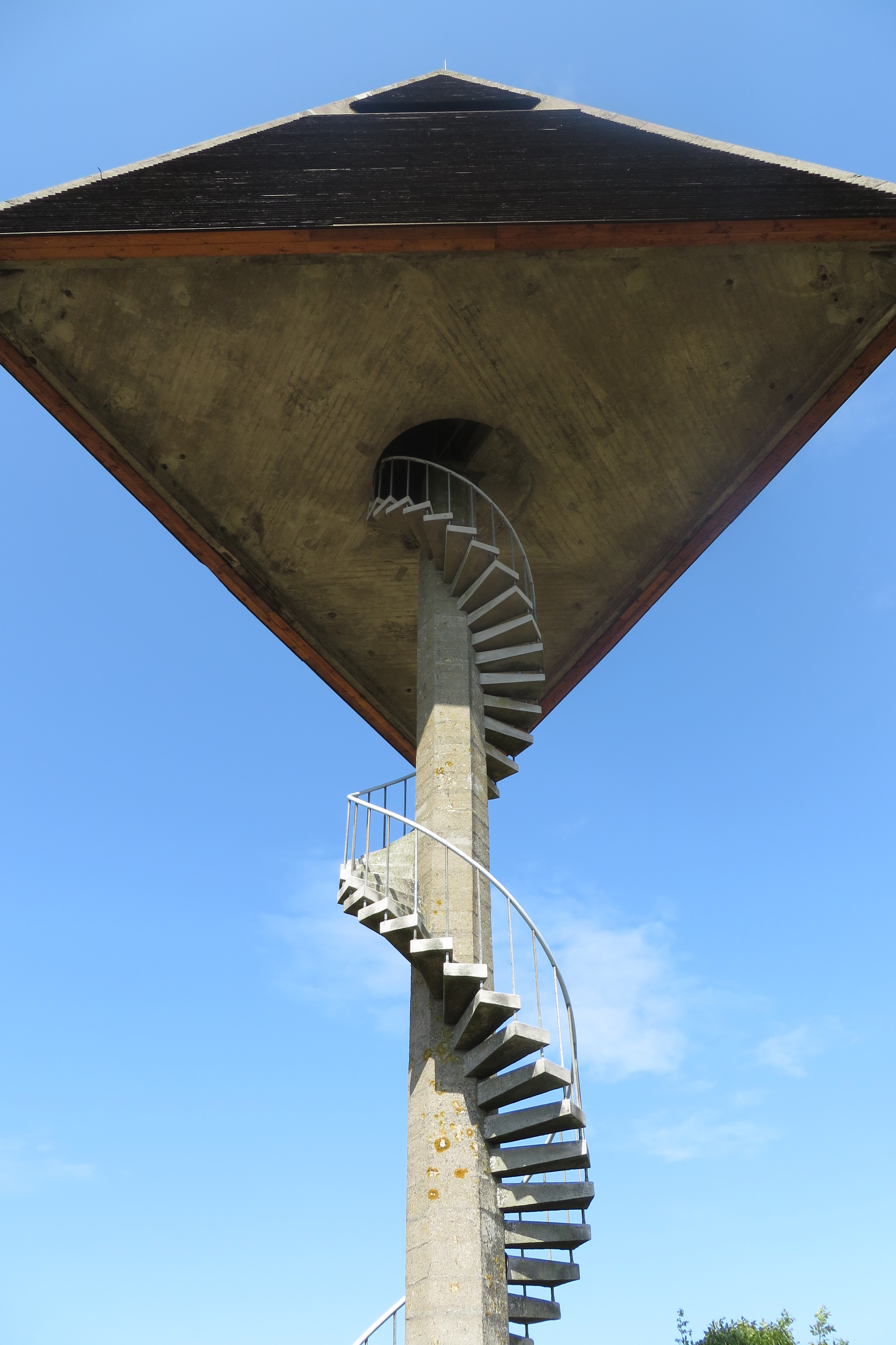 Svaneke, Bornholm, water tower